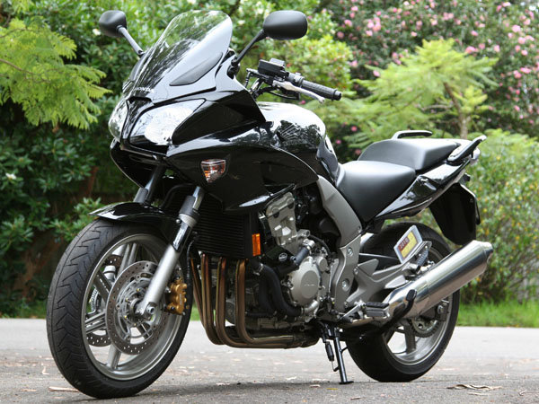 Photo of RocketJock's CBF1000